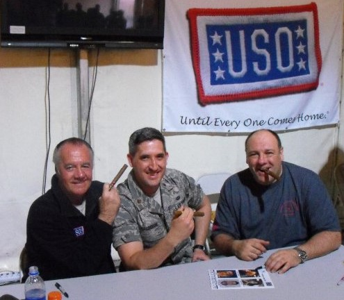 Members of the Sopranos with a U.S. Air Force member in Kuwait during a USO visit